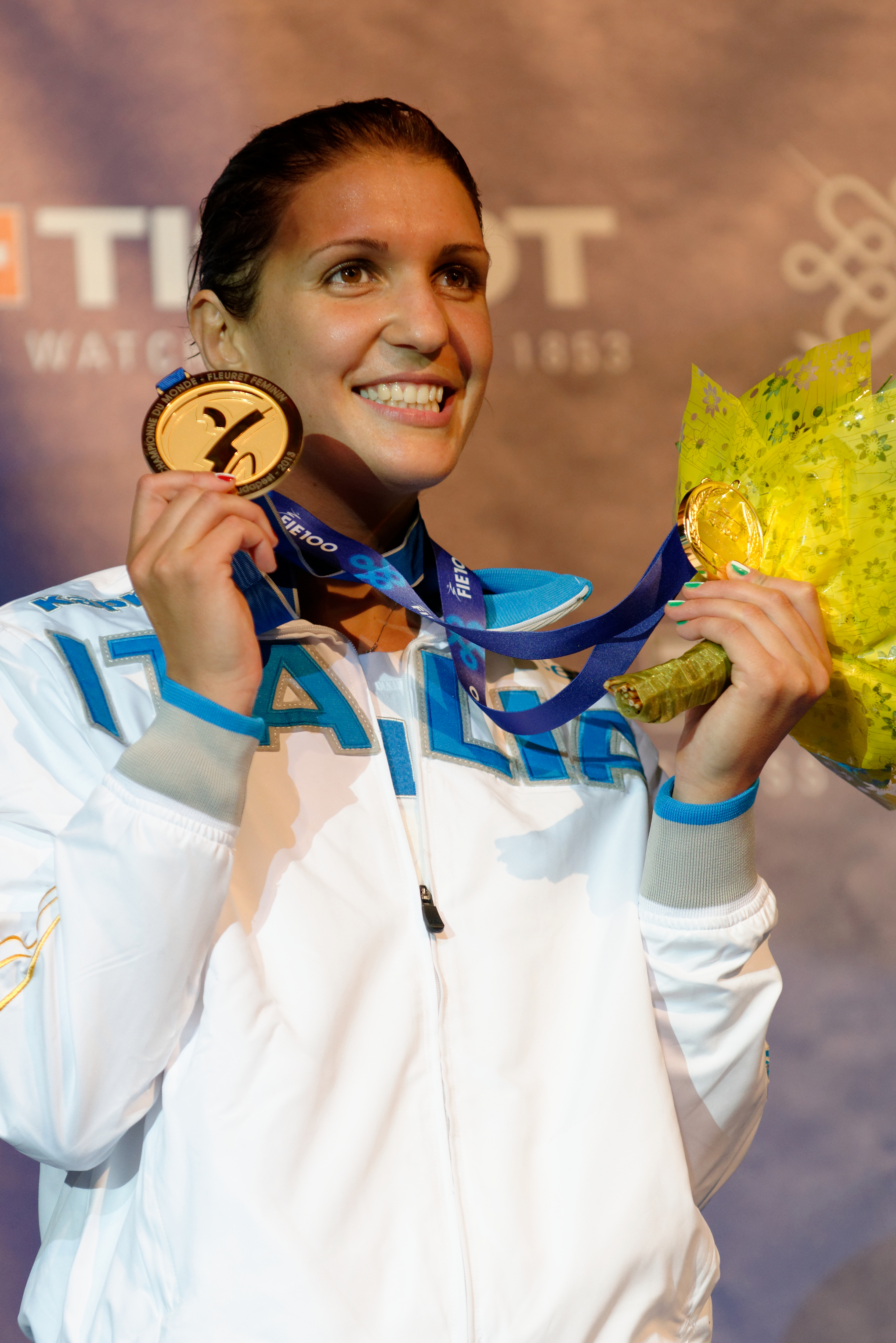 Italy's Arianna Errigo stands on the women's foil podium of the 2013 World Fencing Championships 2013 at Syma Hall in Budapest, 10 August 2013.